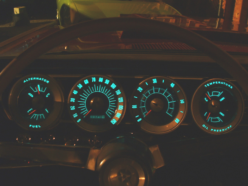 1966 Dodge Charger Electroluminescent Instrument Cluster